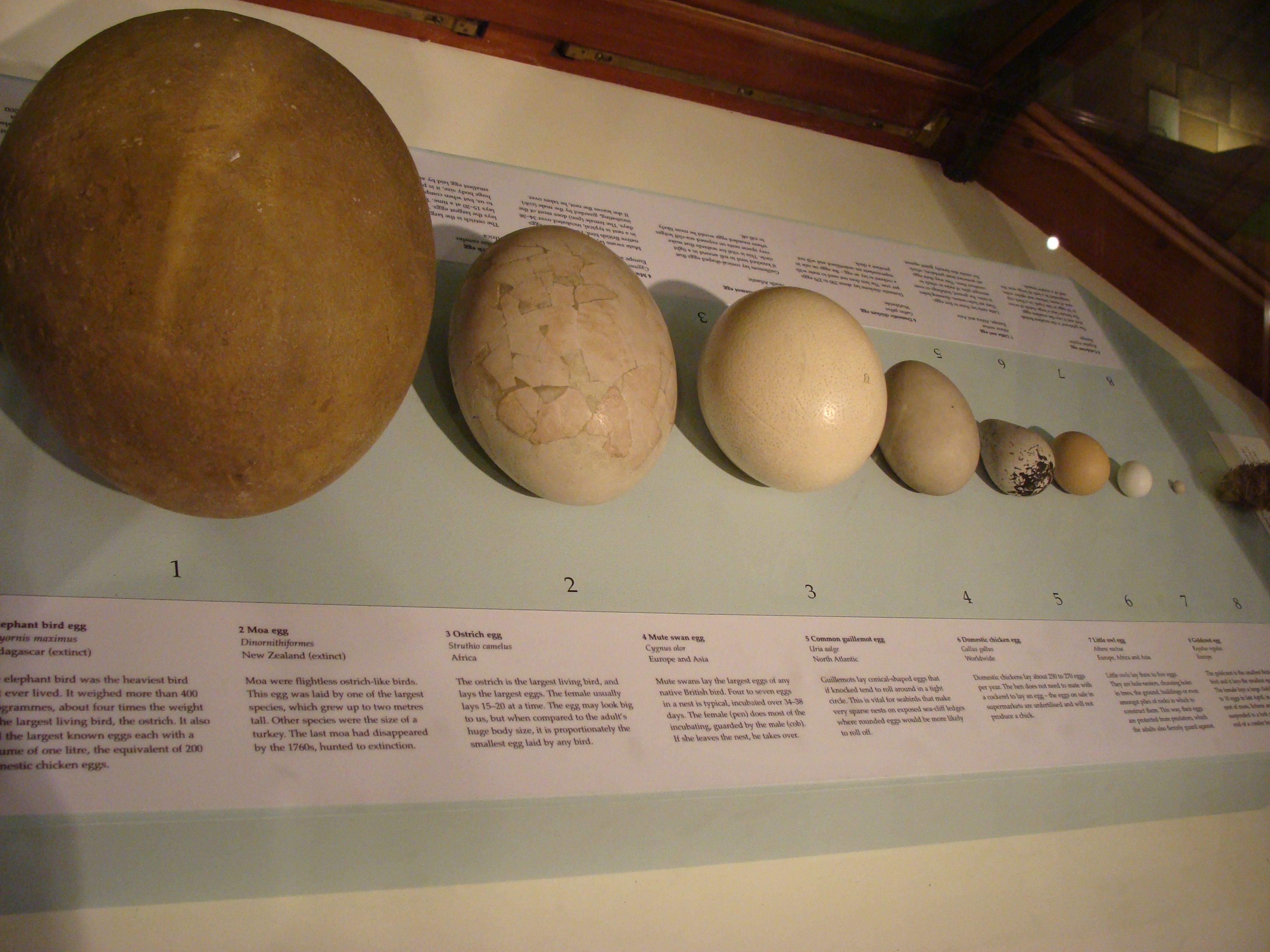 Several eggs in the Natural History Museum of London